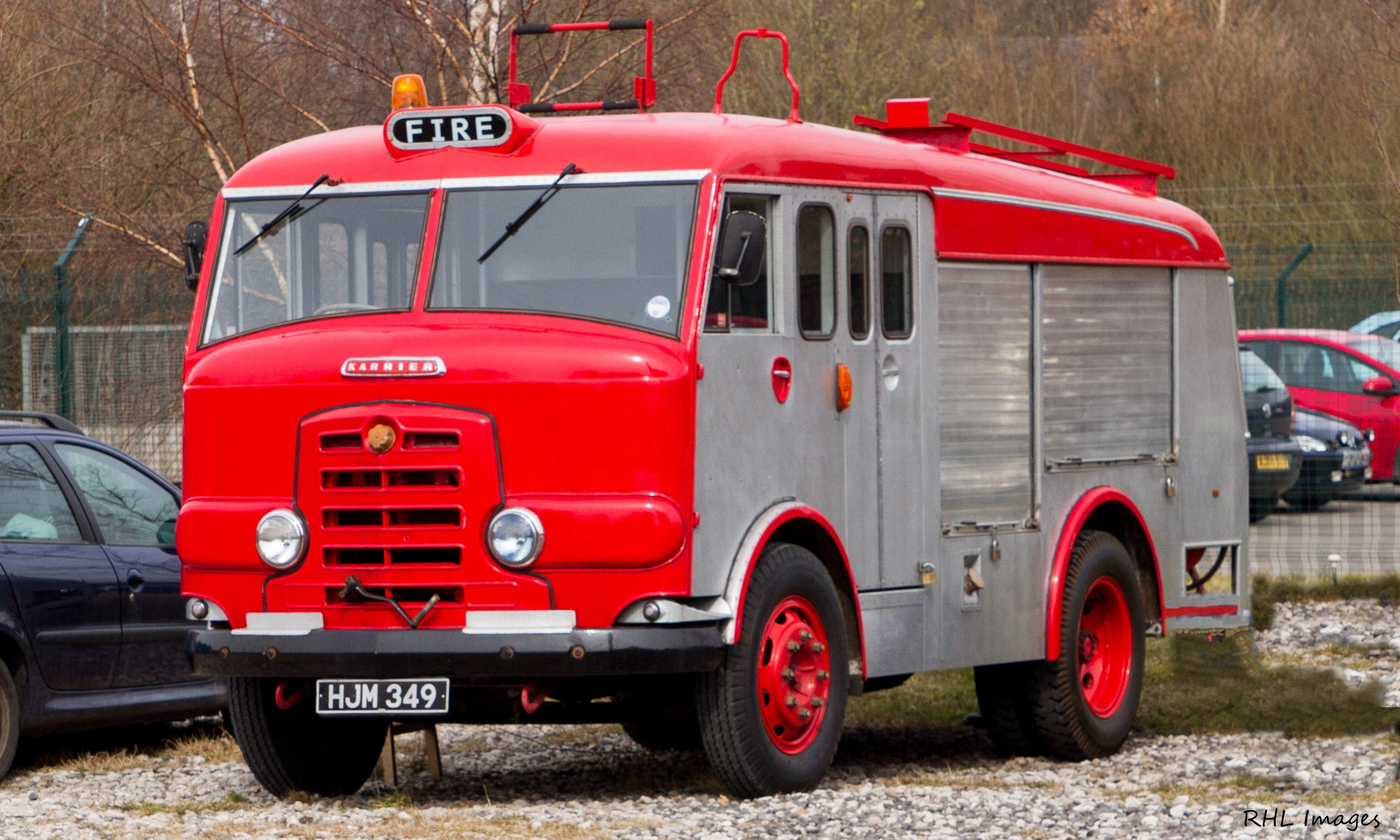 1961 Karrier Gamecock water tender Ellenroad Mill 7 April 2013 1961 Karrier Gamecock fire engine ex Westmoreland started in service at Arnside Cumbria registration no HJM 349